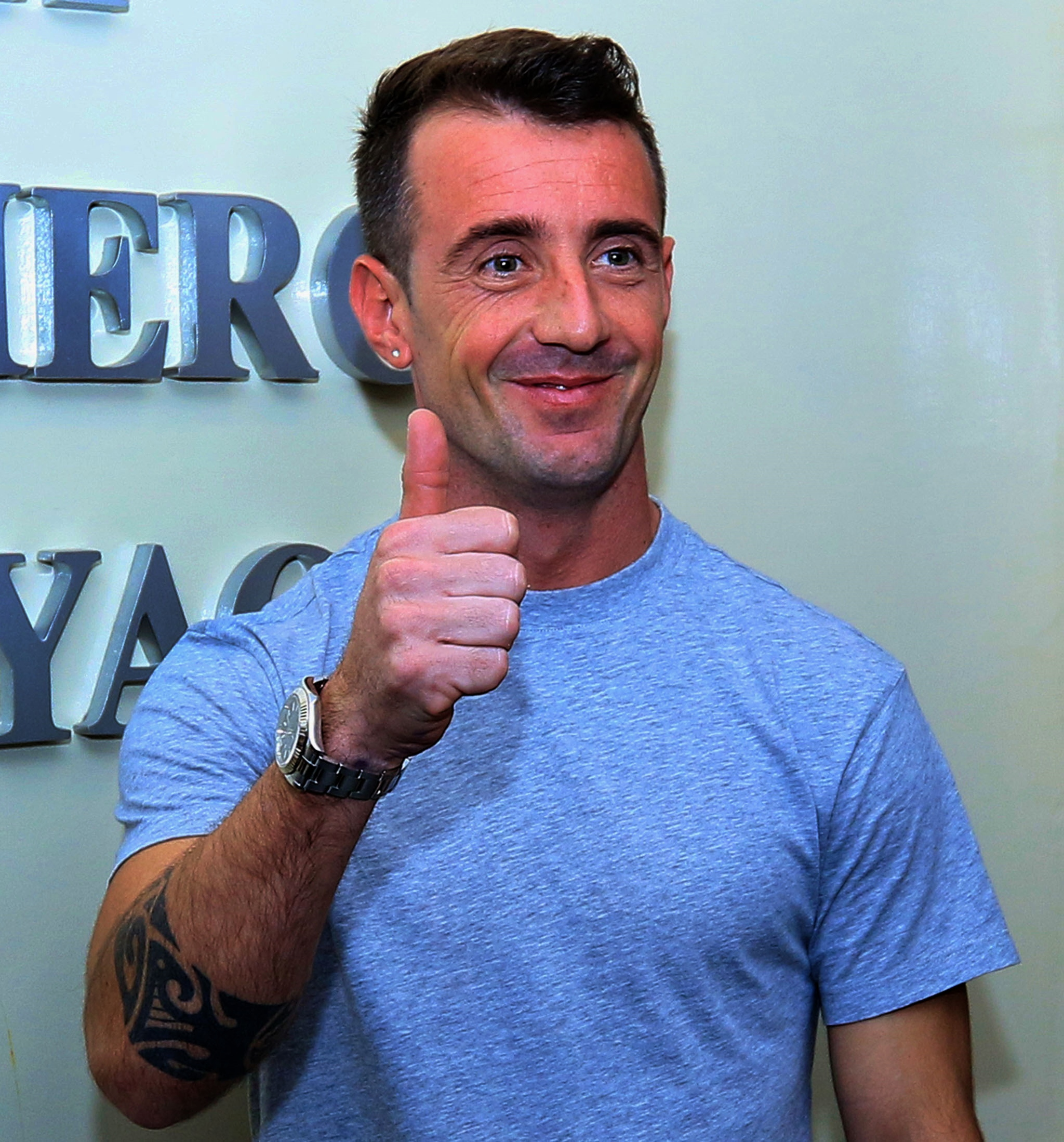 Guayaquil, 07 de Oct. del 2015 (Andes).-El argentino Damián Díaz, fue presentado como refuerzo para la temporada 2016 en Barcelona de Ecuador.Foto:César Muñoz/Andes